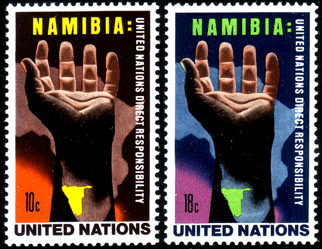 The postage stamp of United Nations for Namibia (1975)